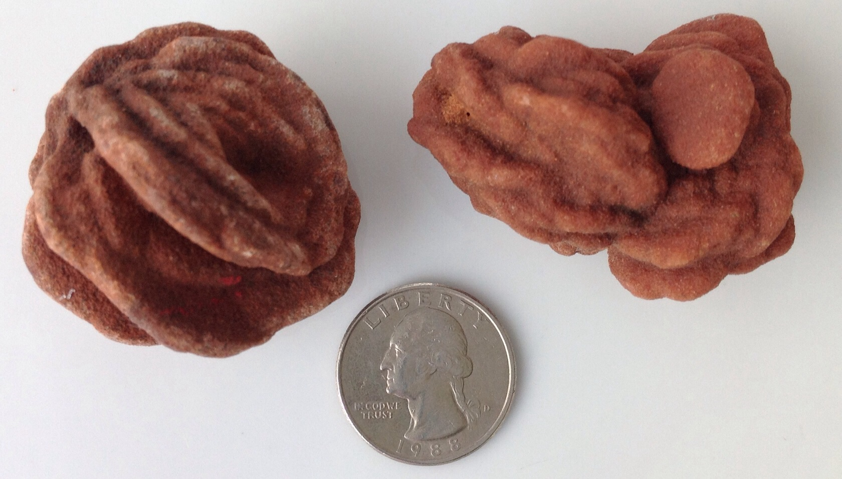 Crystal formations known as Rose Rocks. These specimens are sourced from Cleveland County, Oklahoma, USA with a US quarter for size reference.